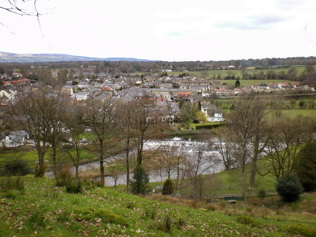 View of Whalley With the River Calder in the foreground